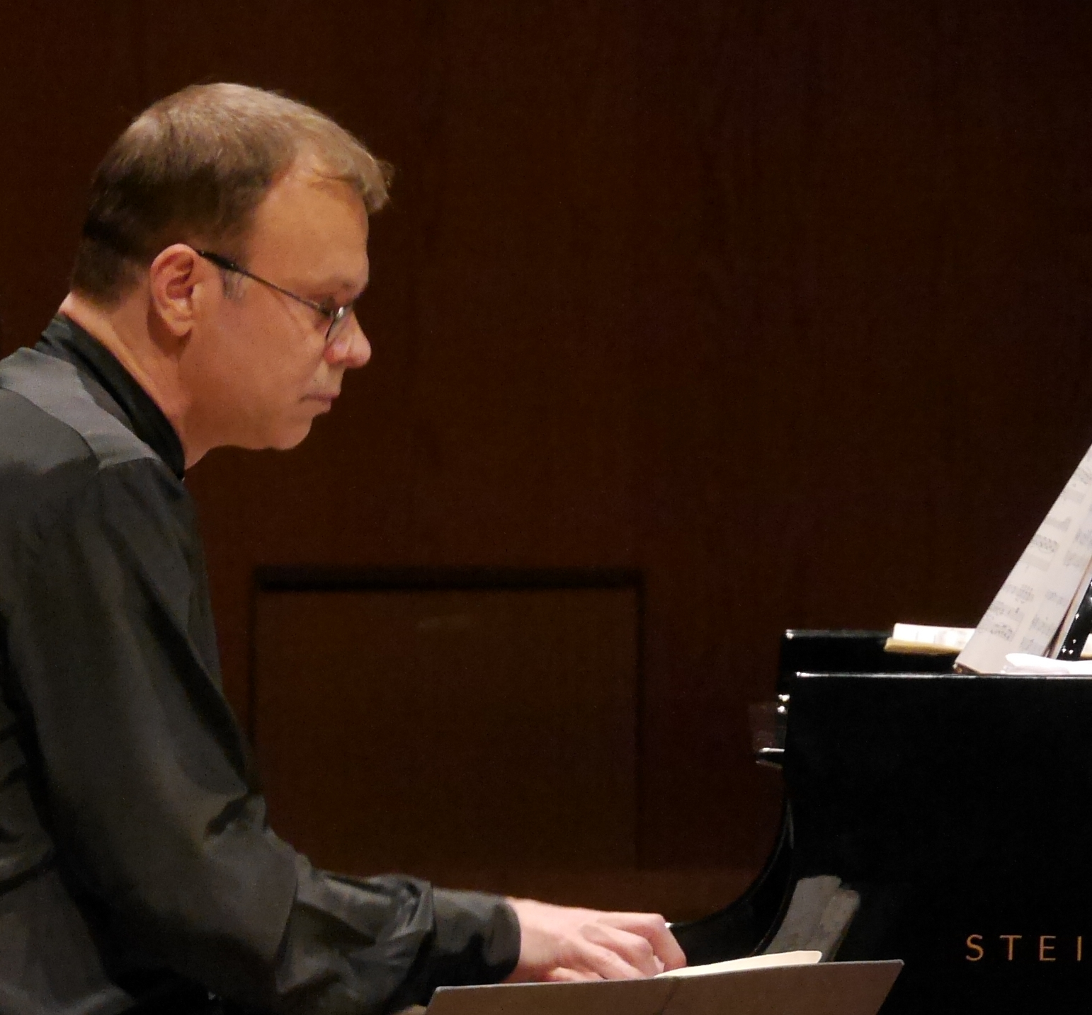 Stefan Vlada